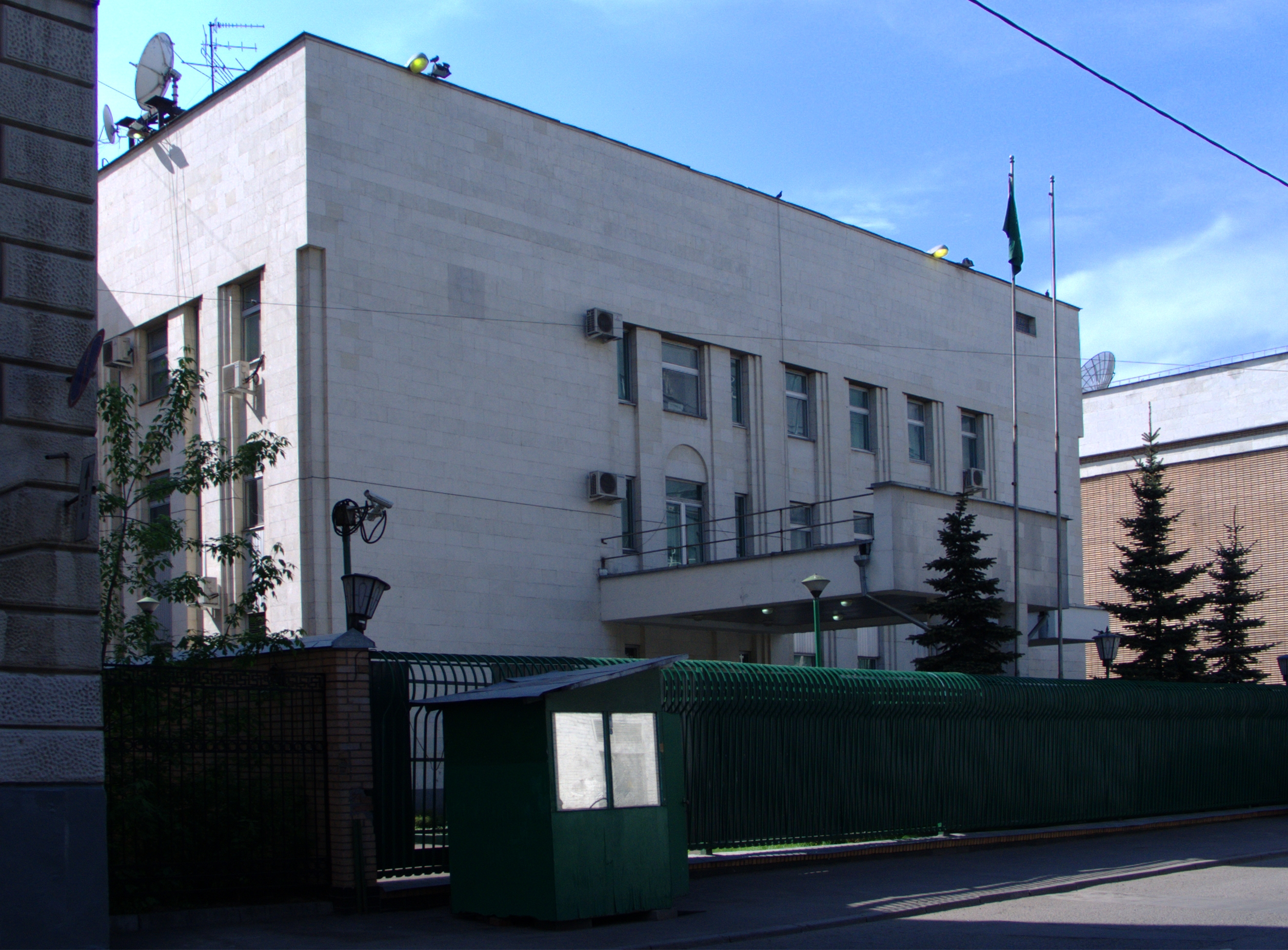 Building of the Embassy of Saudi Arabia in Moscow (Third Neopalimovskiy side-street 3).